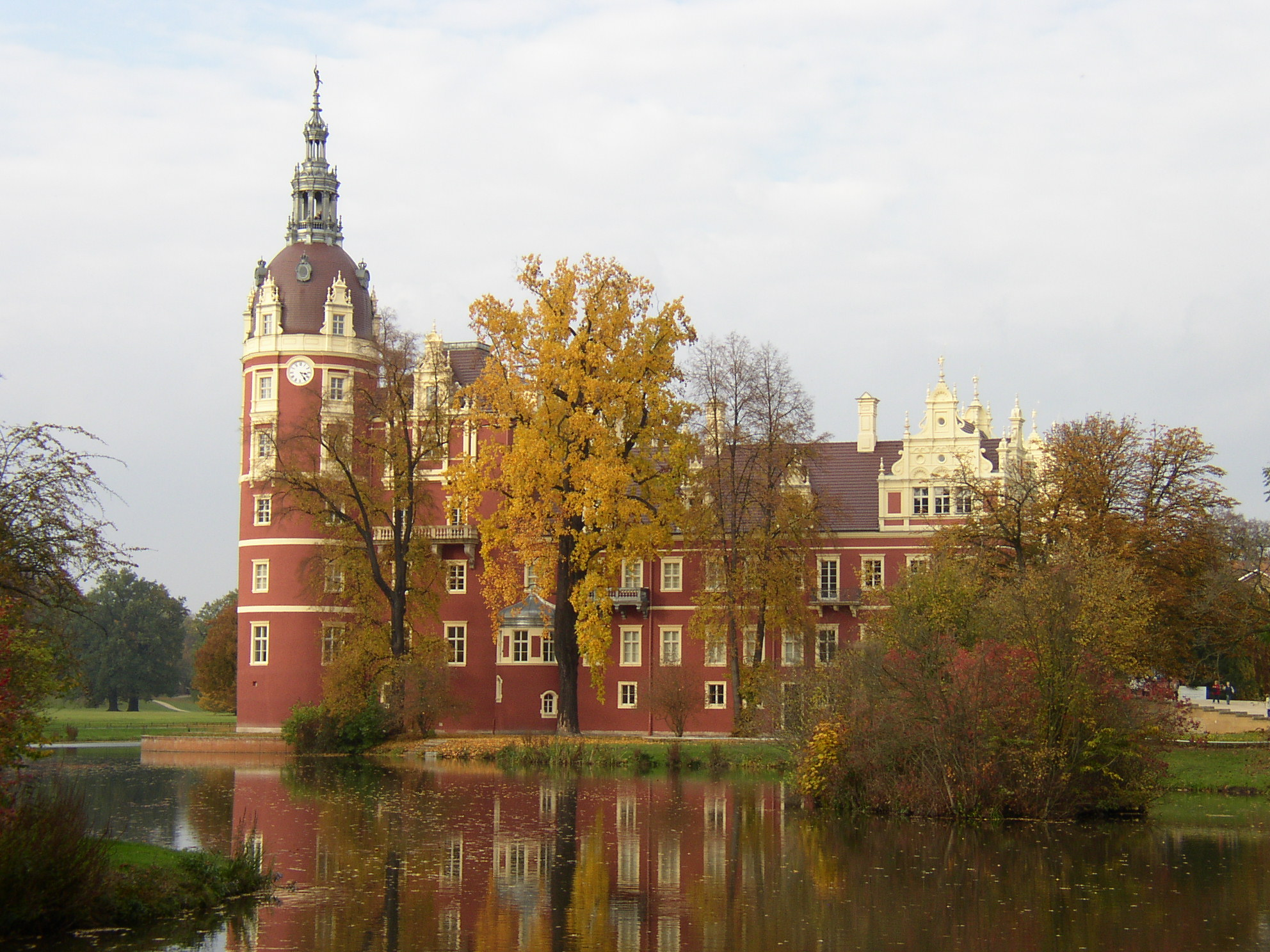 The New Palace Muskau (Bad Muskau, Saxony, Germany).